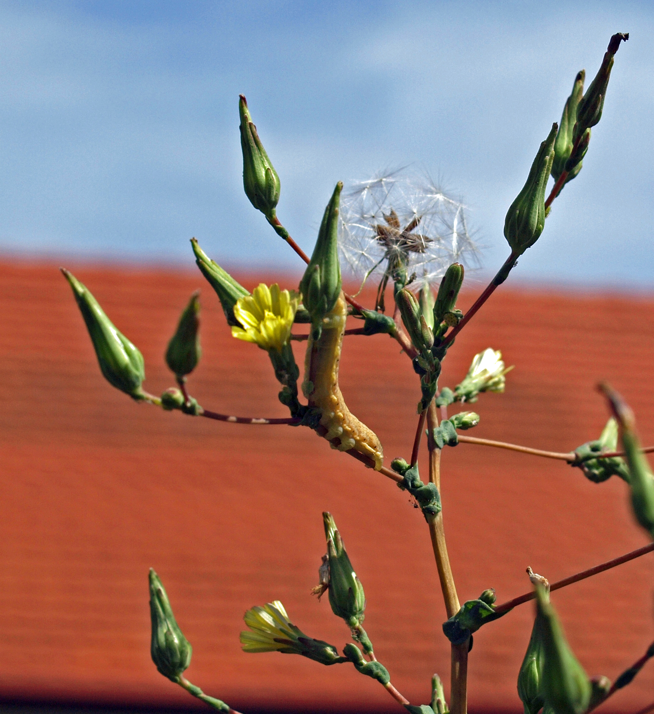 Lactuca serriola with caterpillar of Hecatera dysodea, Graz (Austria)